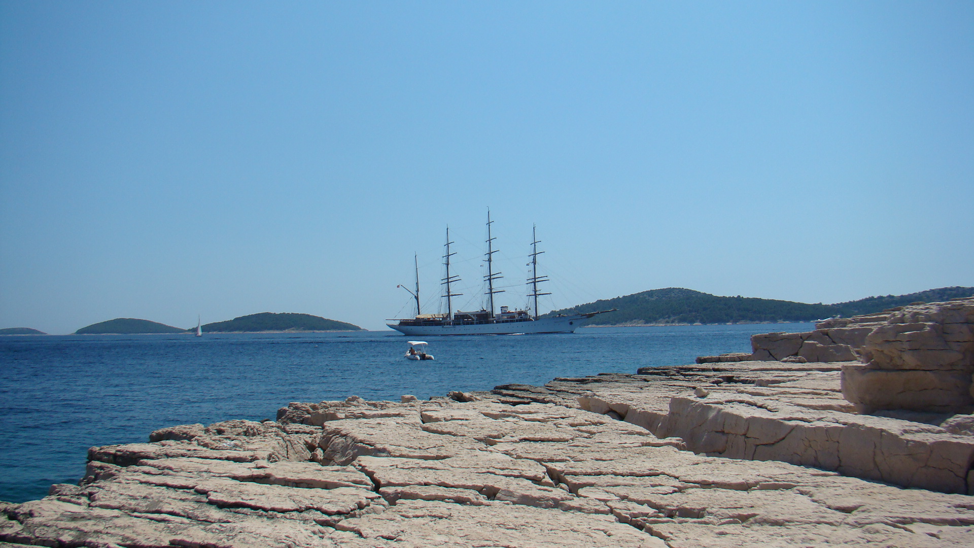 View from the island Tijat at Sea Cloud sailing cruise ship.